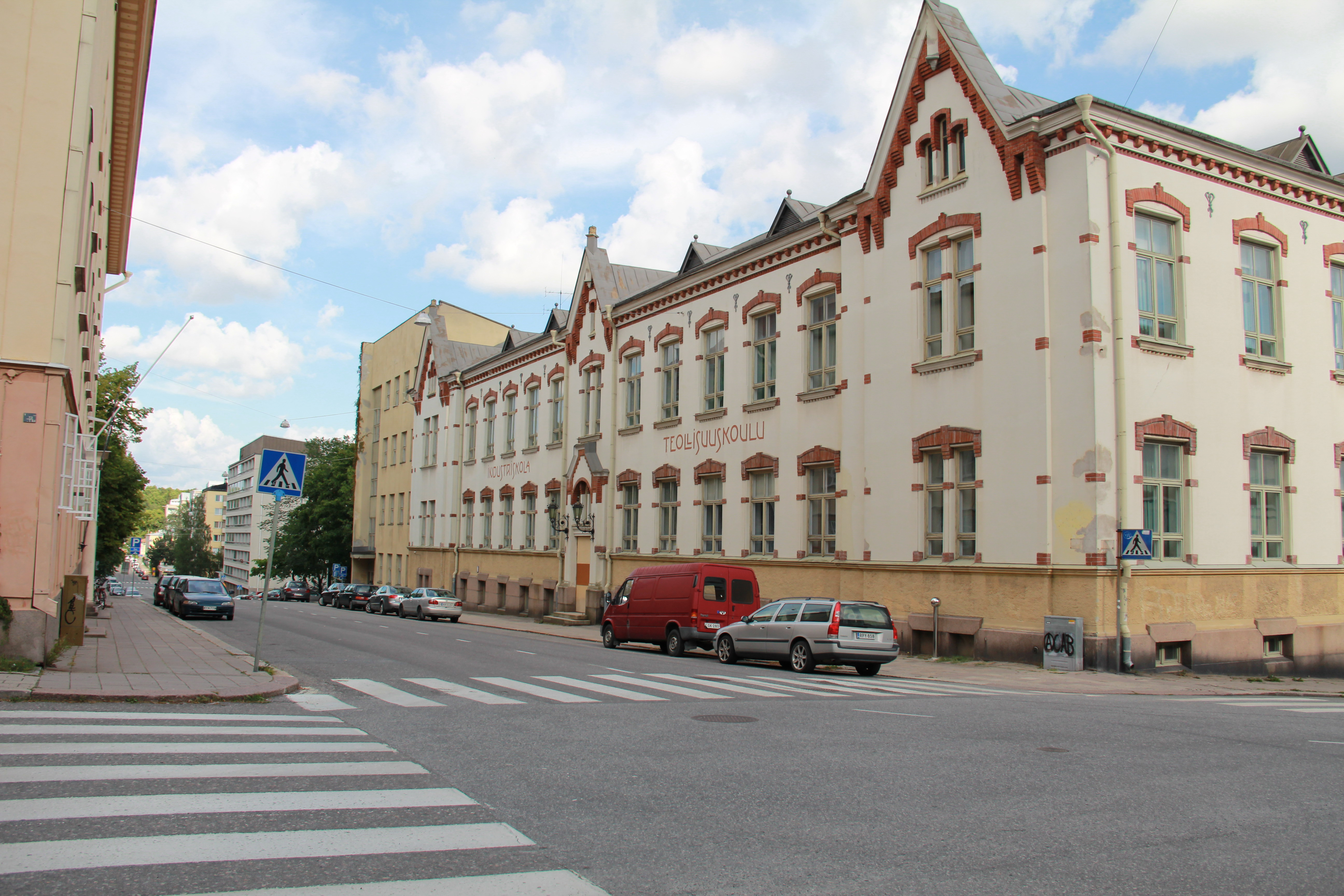 A building of Turku University of Applied Sciences, Sepänkatu, Turku, Finland.